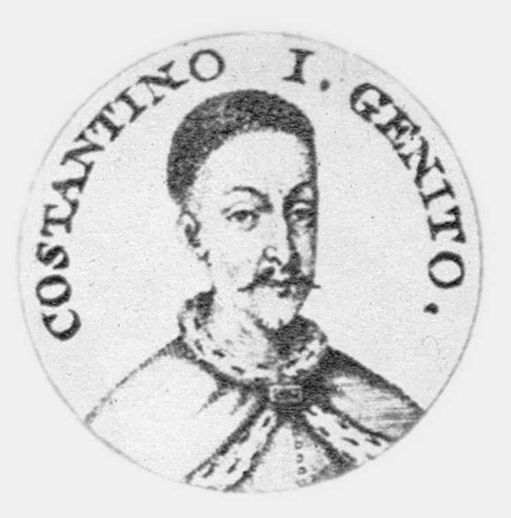 Constantin II Brâncoveanu (1683-1714), oldest son of walachian "prince" Constantin Brâncoveanu. Crop from a gravure representing C. Brâncoveanu and his four sons.